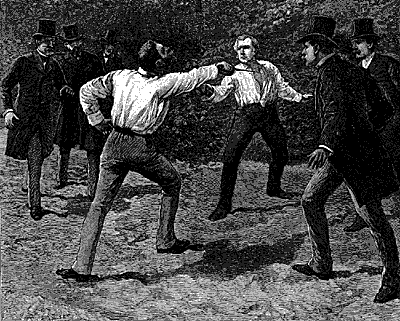 Image of the duel between French Prime Minister Charles Thomas Floquet (1828-1896) en General Georges Ernest Boulanger (1837-1891) on 12 July 1888 on the grounds of the Count Arthur Dillon. Boulanger was heavily wounded by Floquet (he stabbed Boulanger in his neck), but he survived.